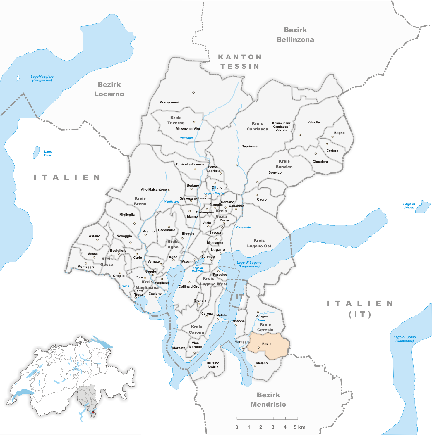 Municipality Rovio